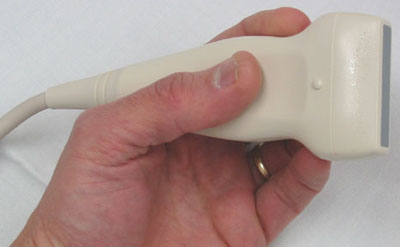 Medical Ultrasound linear array Probe/scan head/transducer. By Daniel W. Rickey 2006